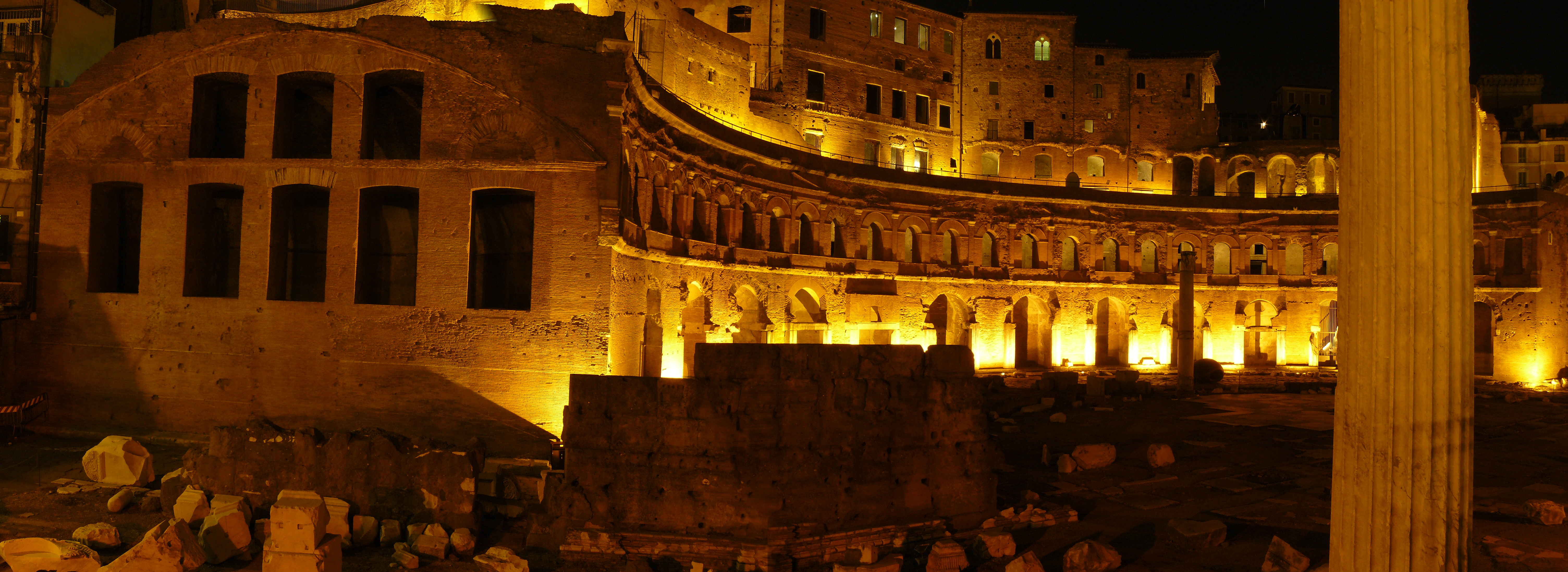 Mercatus Traiani (Trajan's market), a semi-circular ancient market in Rome's historical city center